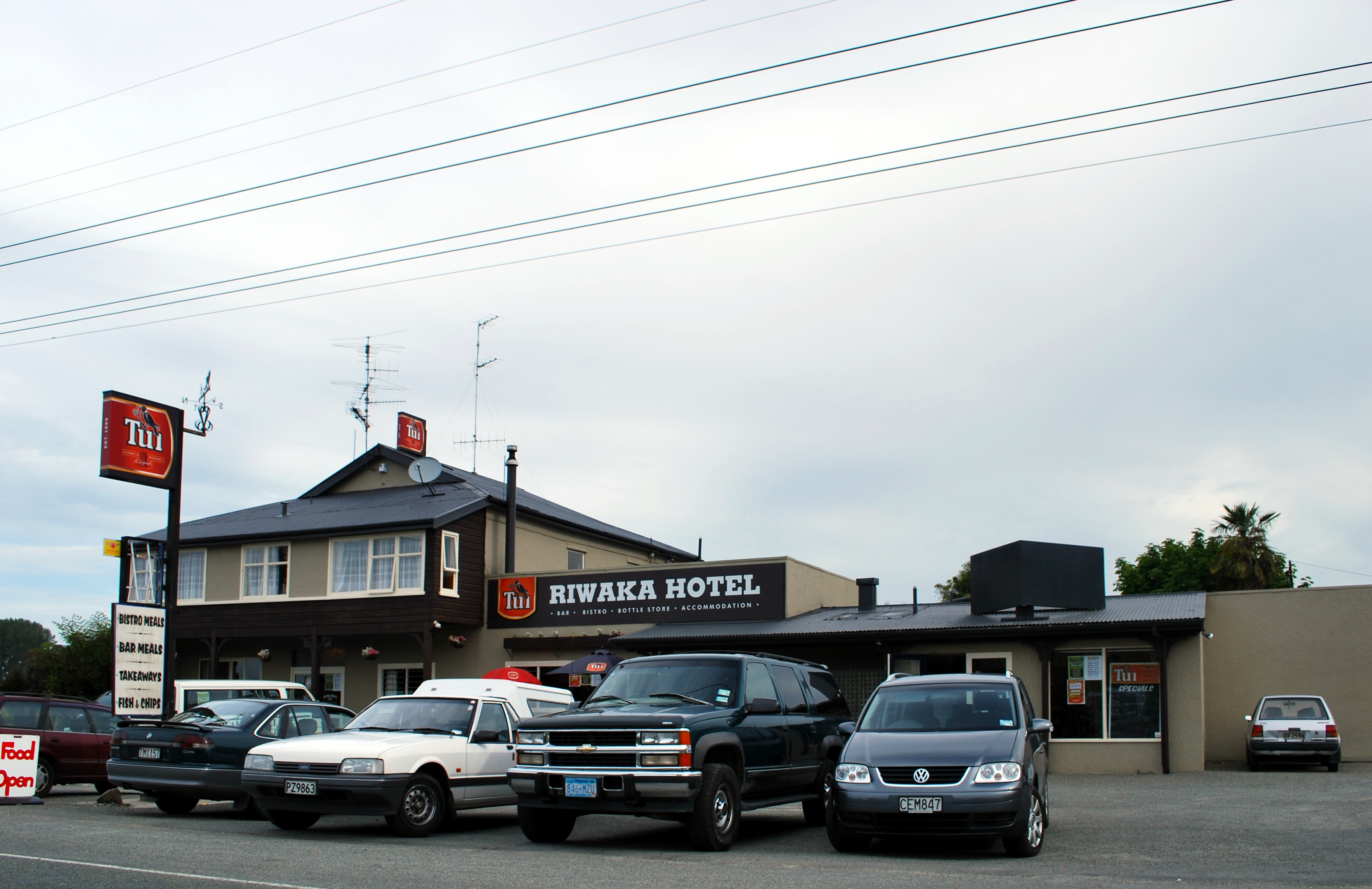 Riwaka Tavern at Riwaka, New Zealand